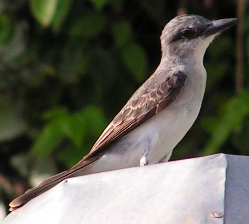 Tyrannus dominicensis photographed on Barbados